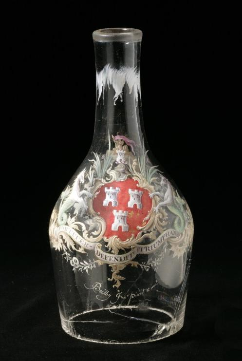 Decanter, 1762, William Beilby V&A Museum no. C.620-1936 Techniques: Glass, enamelled and gilded Place: Newcastle upon Tyne, England (probably) Dimensions: Height 23.5 cm